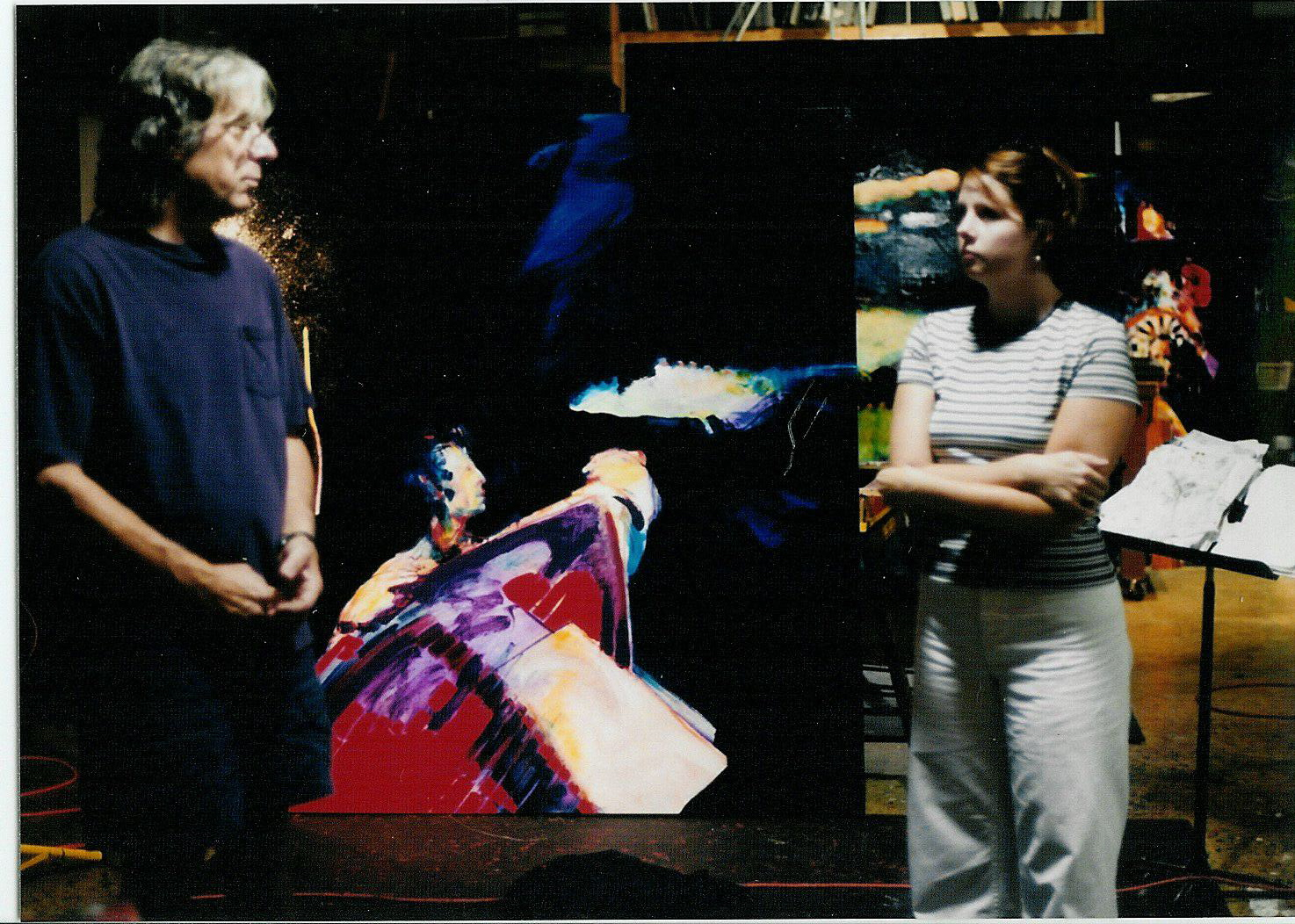 Jere Allen speaks with an admirer at his studio in Oxford, Mississippi, 2001